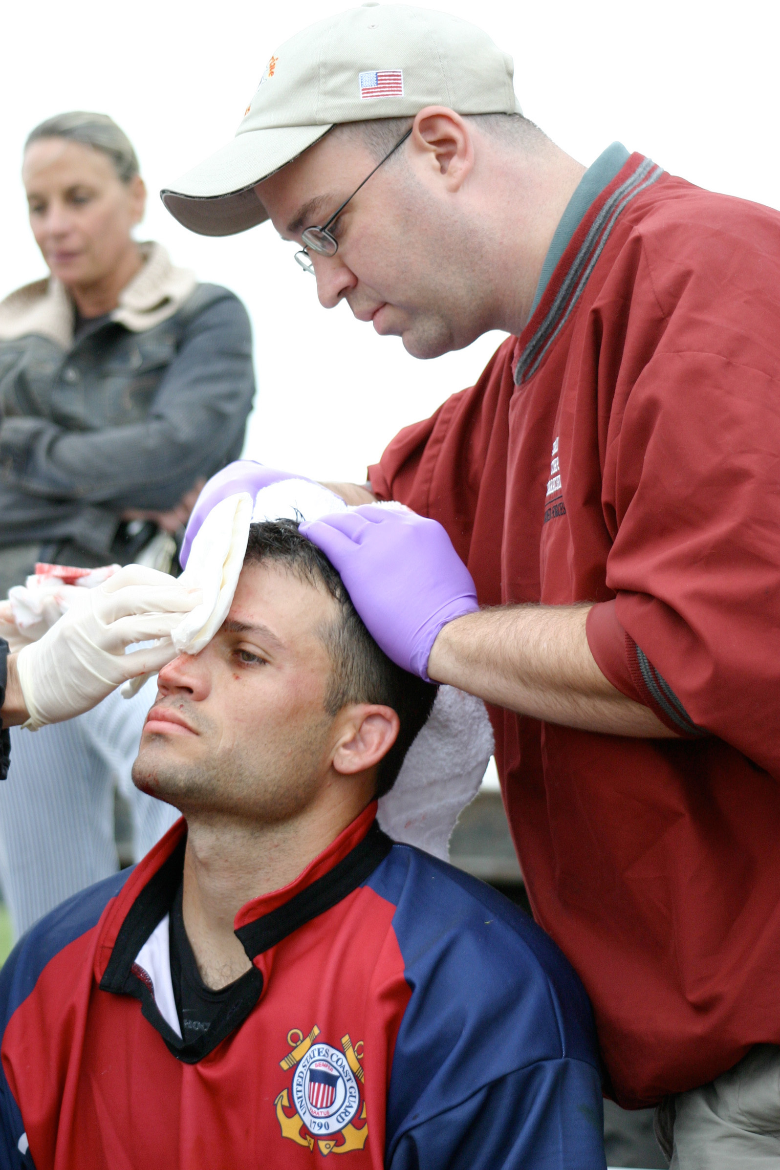 CAMP LEJEUNE, N.C. (Feb. 24, 2005) A rugby player is treated for injuries as Coast Guard members play rugby against Marines at Coast Guard Special Missions Training Center, Camp Lejeune, N.C. USCG photo by PA2 Erica Taylor.